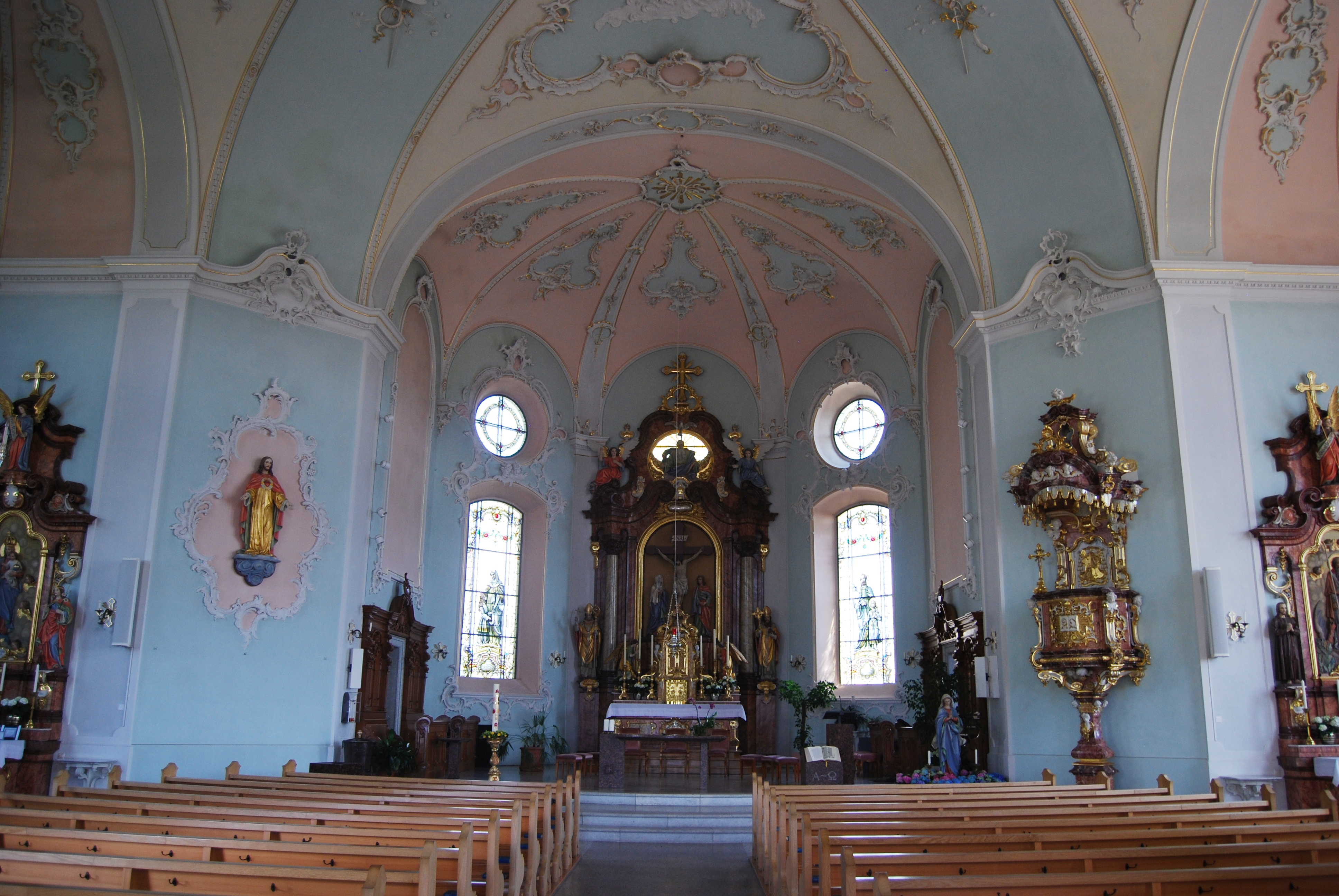 Catholic church of Niedergösgen, canton of Solothurn, SwitzerlandEsperanto: Katolika preĝejo de Niedergösgen, Kantono Soloturno, Svislando